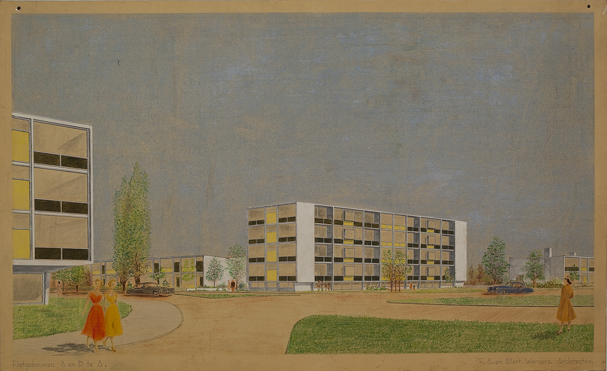 F.A Warners en A. Warners. Appartementengebouw Slotermeer, Amsterdam, 1956. Collectie Het Nieuwe Instituut, WARN 8 F.A. Warners and A. Warners. Apartment building Slotermeer, Amsterdam, 1956. The New Institute Collection, WARN 8 200 tekeningen, maquettes en foto's uit de collectie van Het Nieuwe Instituut zijn dit najaar te zien in De Hermitage in St. Petersburg. Samen met een aantal bruiklenen van hedendaagse architectenbureaus vormen ze de tentoonstelling ‘Architecture the Dutch Way 1945-2000’, over de vormgeving van Nederland na de Tweede Wereldoorlog. Op Flickr Commons een uitgebreide selectie uit de stukken die in september op transport gaan naar Rusland. 200 drawings, models and photographs from the collection of The New Institute will be on show this autumn at the Hermitage in St. Petersburg. Together with several items on loan from contemporary architectural firms, they will form the exhibition Architecture the Dutch Way 1945-2000 which is about the design of the Netherlands after the Second World War. On Flickr Commons we present a selection of pieces that will be leaving for Russia in early September.